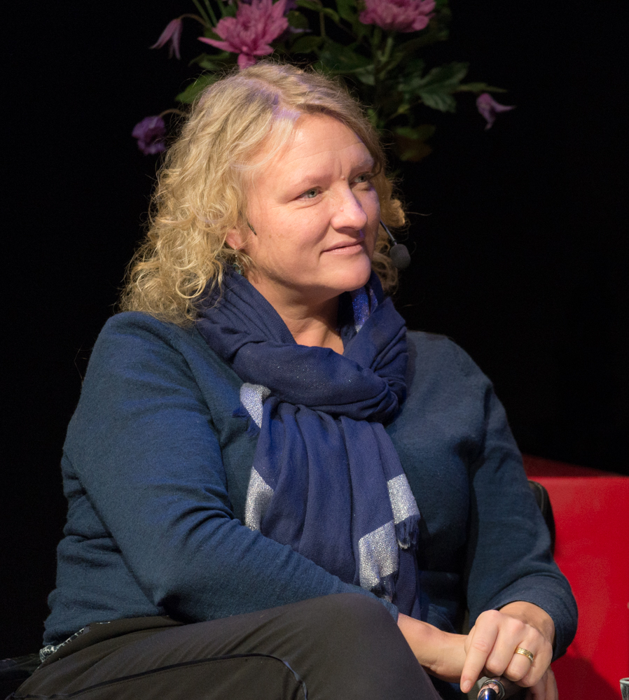 Anna Takanen during a talk in "Anna's corner" with Iwar Wiklander and Birgitta Ulfsson at Kulturhuset Stadsteatern in Stockholm on October 18, 2016.